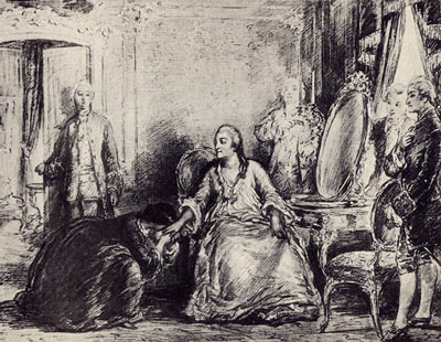 Maria and Catherine II